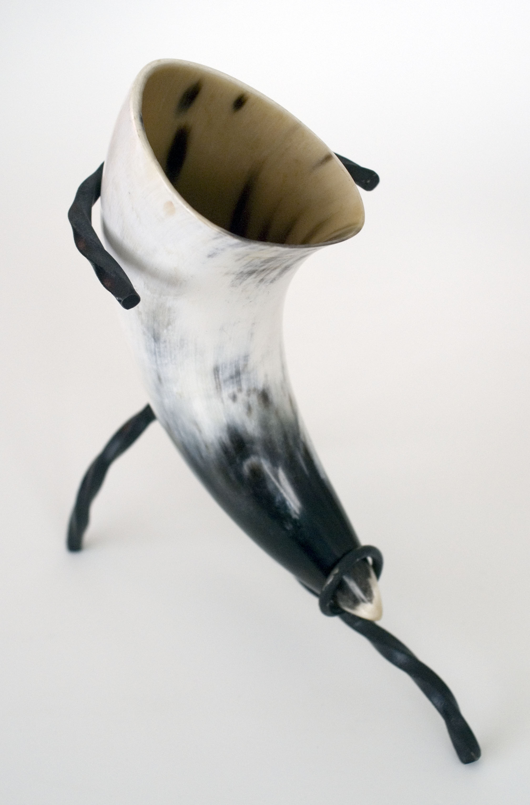 simple drinking horn with iron stand